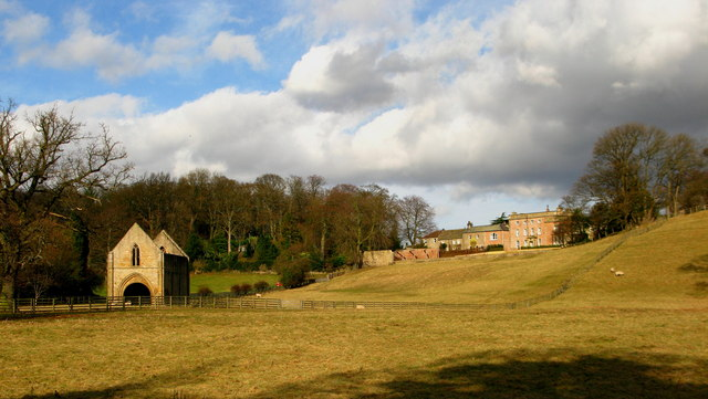 Abbey Gatehouse and Easby House View from Love Lane close to Easby Abbey.